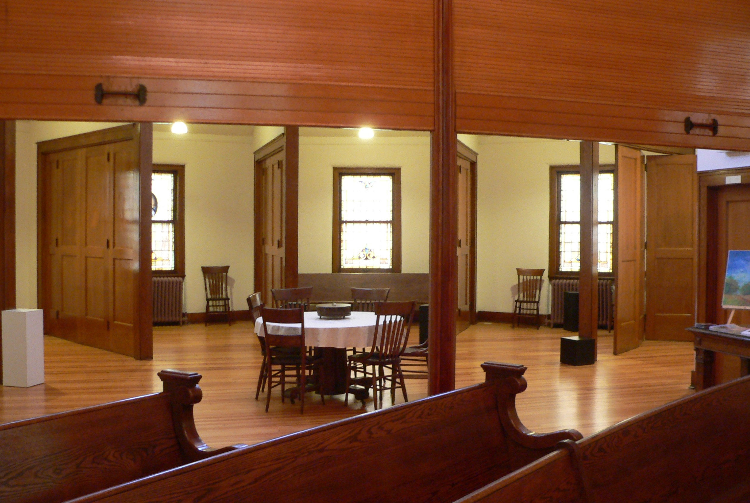 Sunday-school rooms in Historic Presbyterian Center, formerly First United Presbyterian Church, in Madison, Nebraska. Camera is in the sanctuary, facing west-northwest. Note half-closed tambour doors separating sanctuary from Sunday-school area.